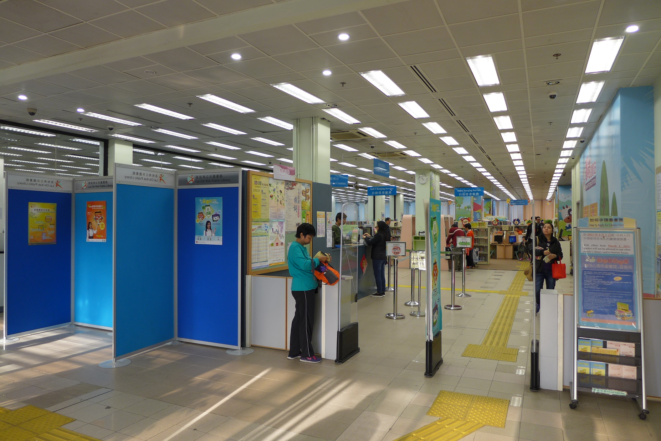 Lai Chi Kok Public Library